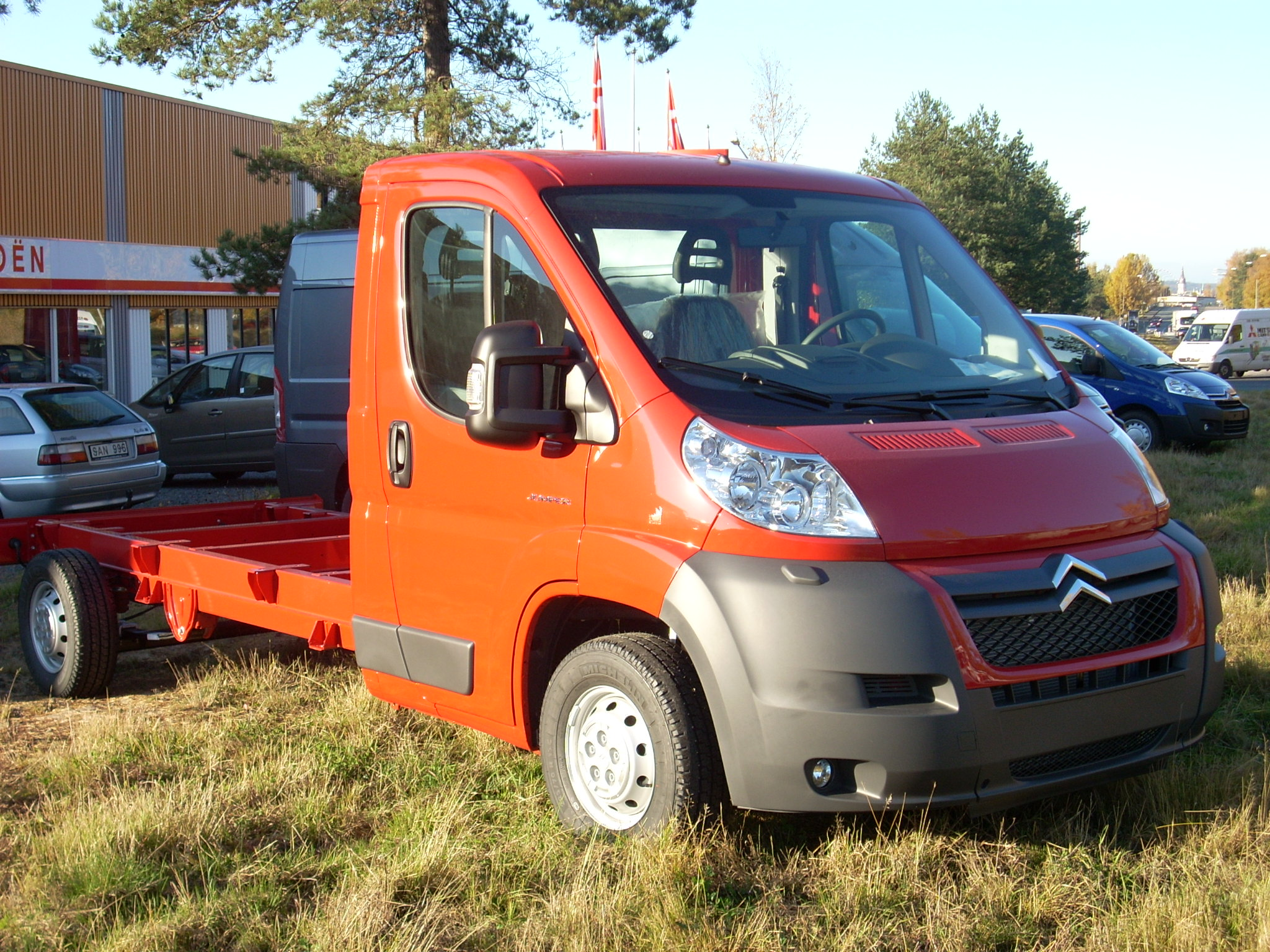 A new Citroën Jumper chasiss photographed in Jönköping.